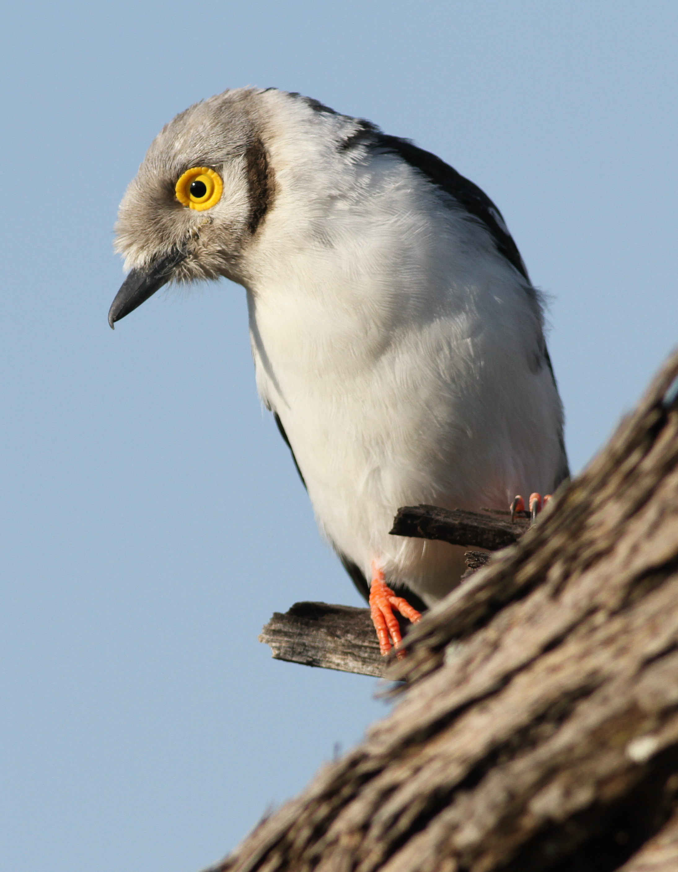 White-crested helmetshrike, Prionops plumatus, at Mapungubwe National Park, Limpopo, South Africa